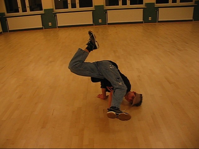 a baby freeze in breakdance